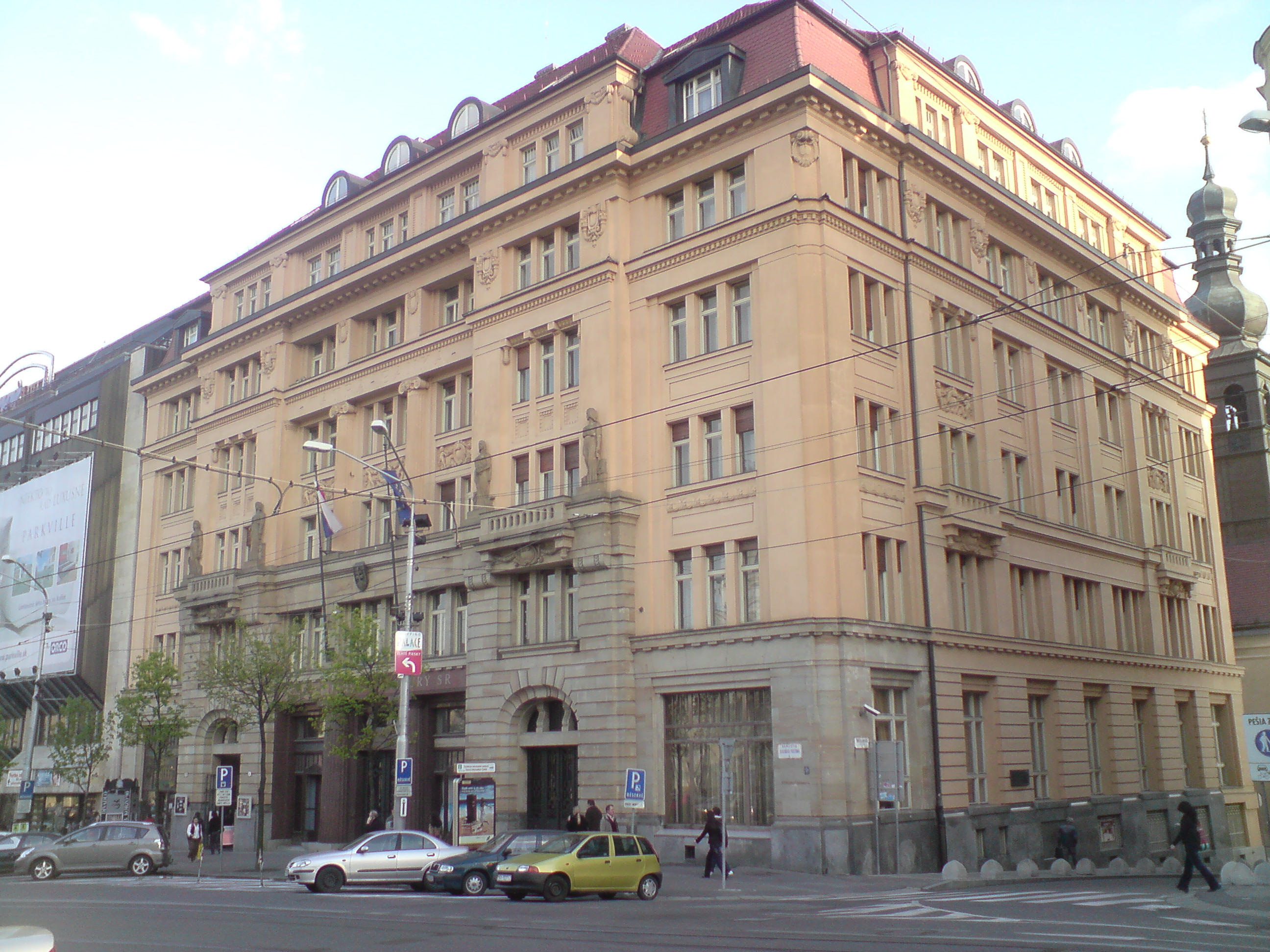 Bankový palác, Námestie SNP, Bratislava This medium shows the protected monument with the number 101-730/0 in the Slovak Republic.